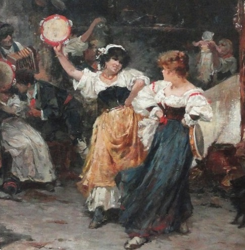 Detail from Henrique Bernardelli's Tarantella (oil on canvas)